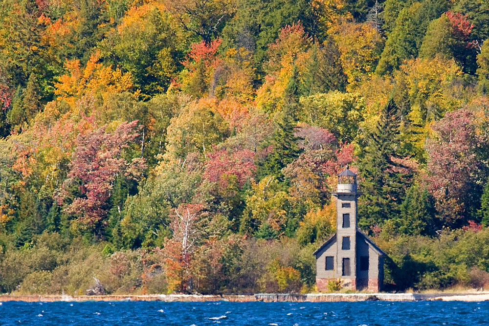 Grand Island East Channel Light, part of Grand Island National Recreation Area. Part of Grand Island, offshore of Munising, Michigan. Photo taken from Sand Point in Michigan’s Pictured Rocks National Lakeshore.